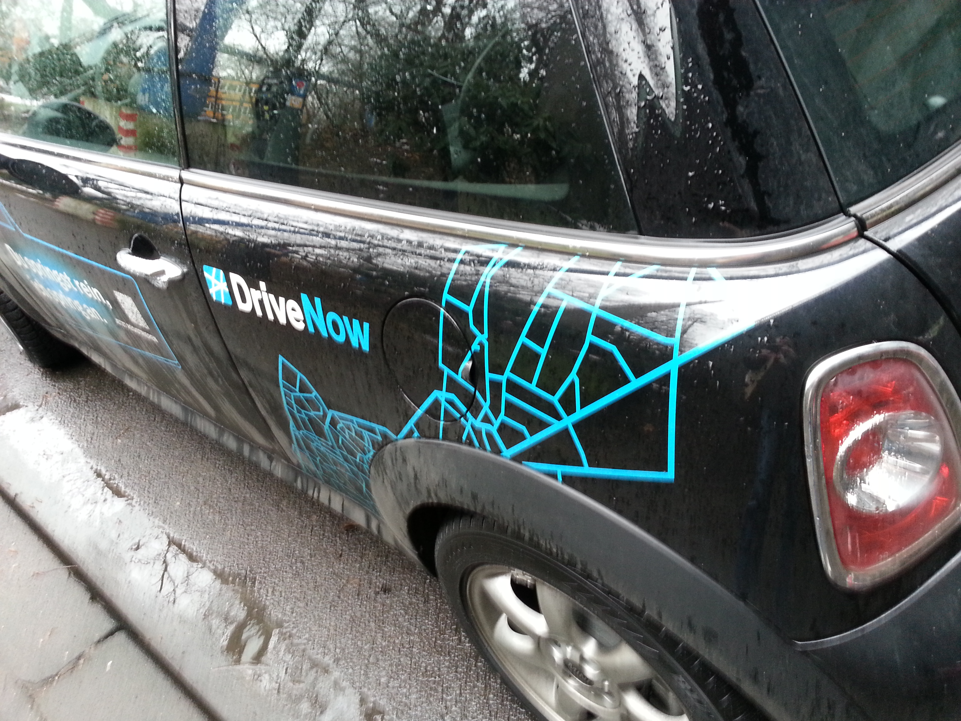 A car sharing vehicle, parked on the side of the road.